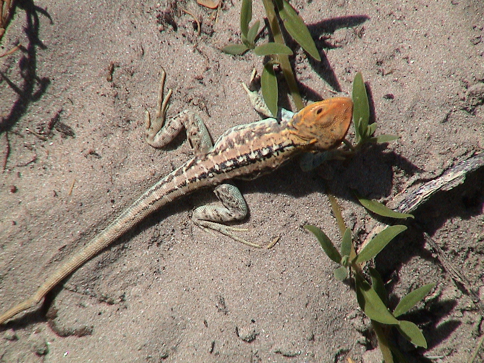 Ctenophorus pictus – Painted Dragon, at Tennyson, South Australia.